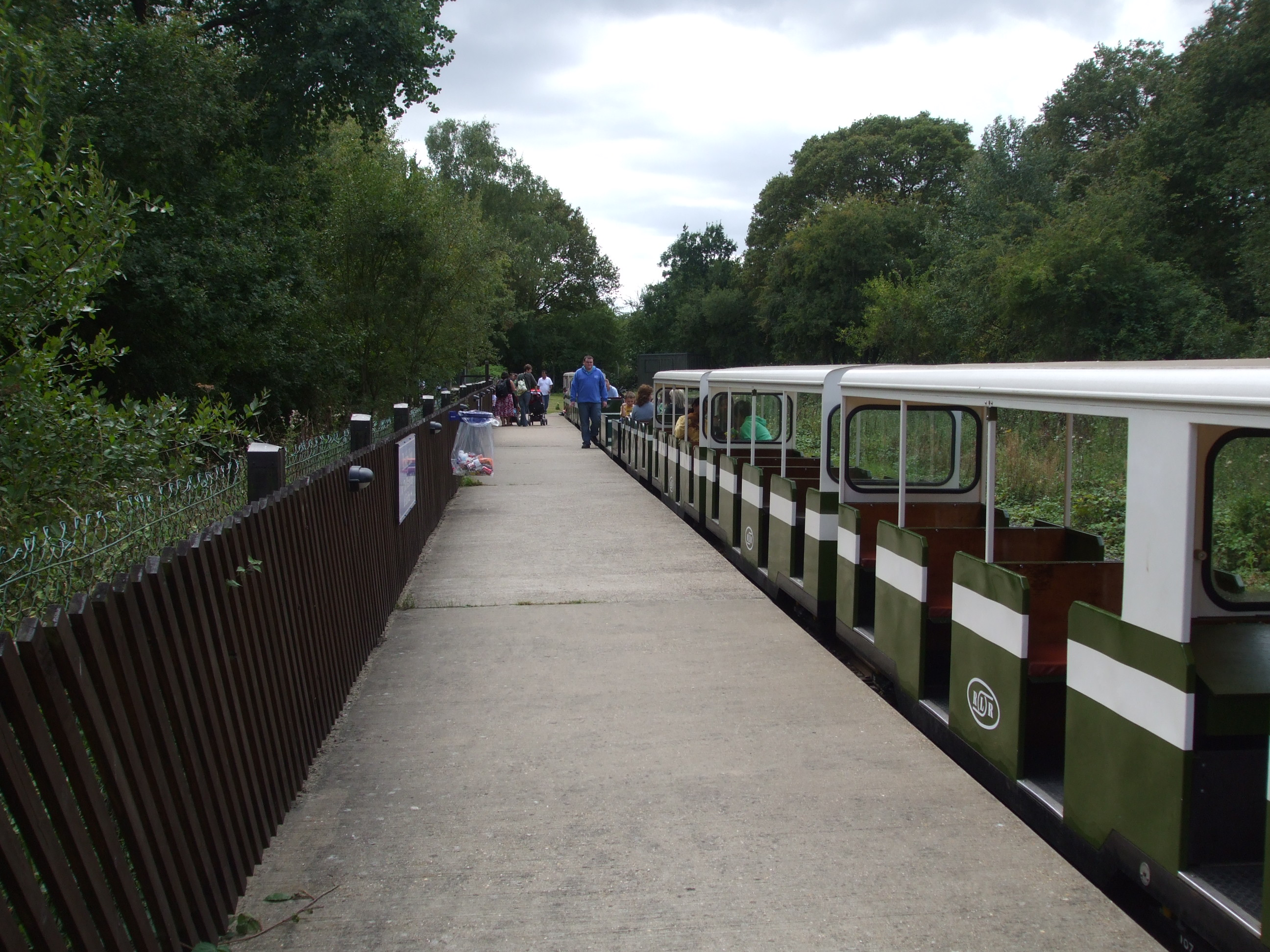 Ruislip Lido station platform looking south towards the turntable